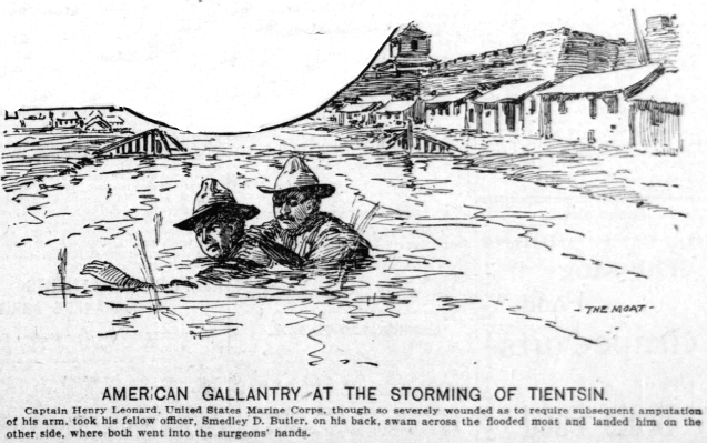 Drawing from the San Fransisco Call newspaper, showing Smedley Butler being carried on the back of Capt. Henry Leonard at the Battle of Tientsin in 1900. Cropped and removed a large portion of other images that was superimposed on this one.